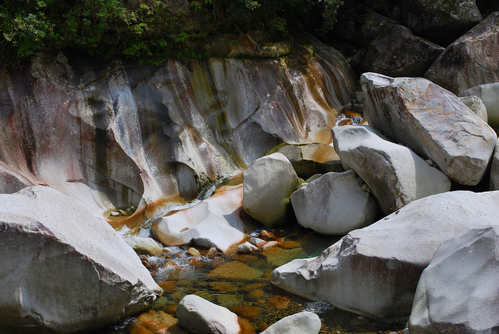 Uotobi valley